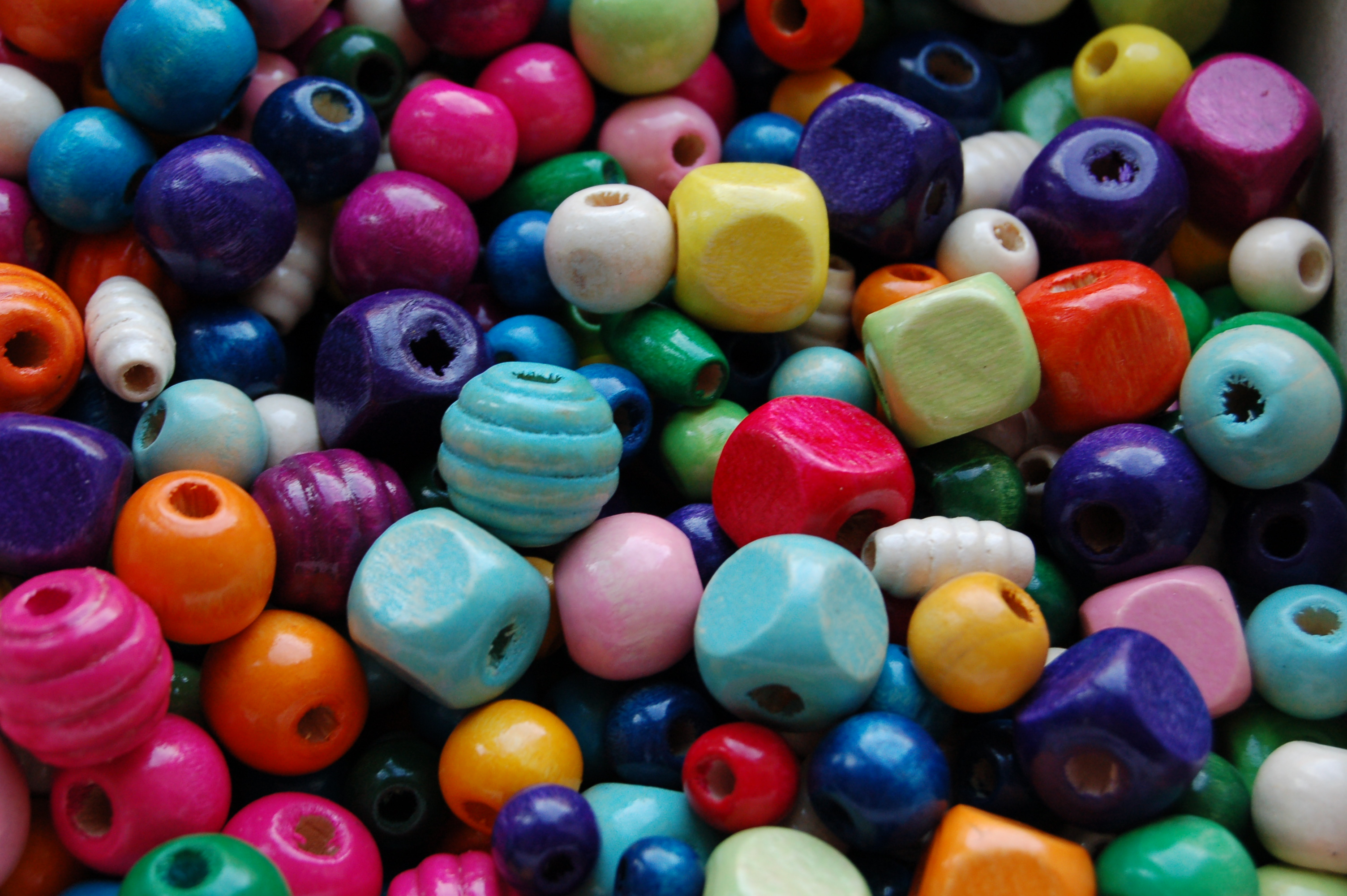 beads...... yep.